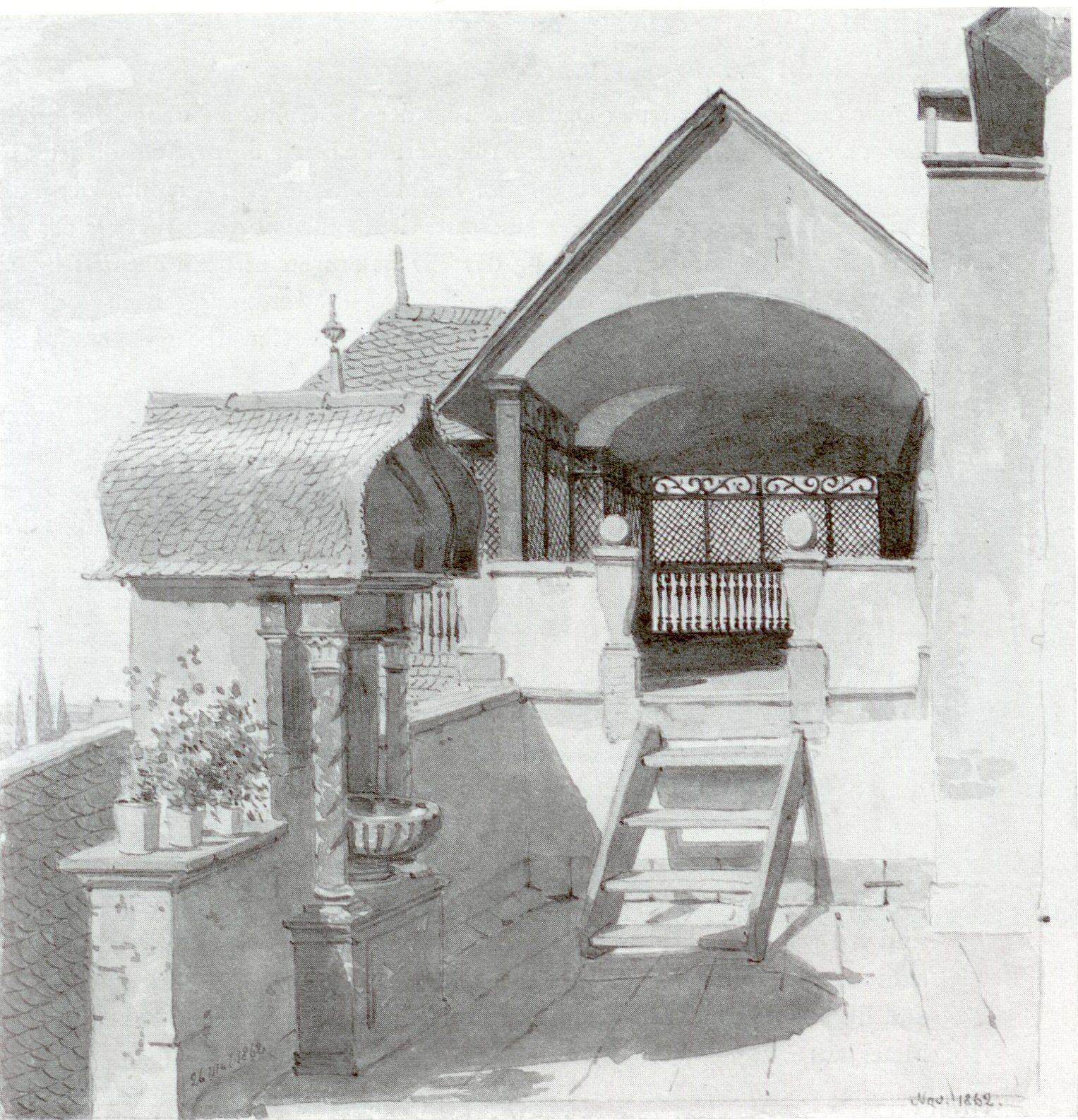 Roof Garden of the House of the Golden Scale, destroyed 1944. Drawing by Carl Theodor Reiffenstein, 1862